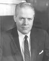 work of a US Agency